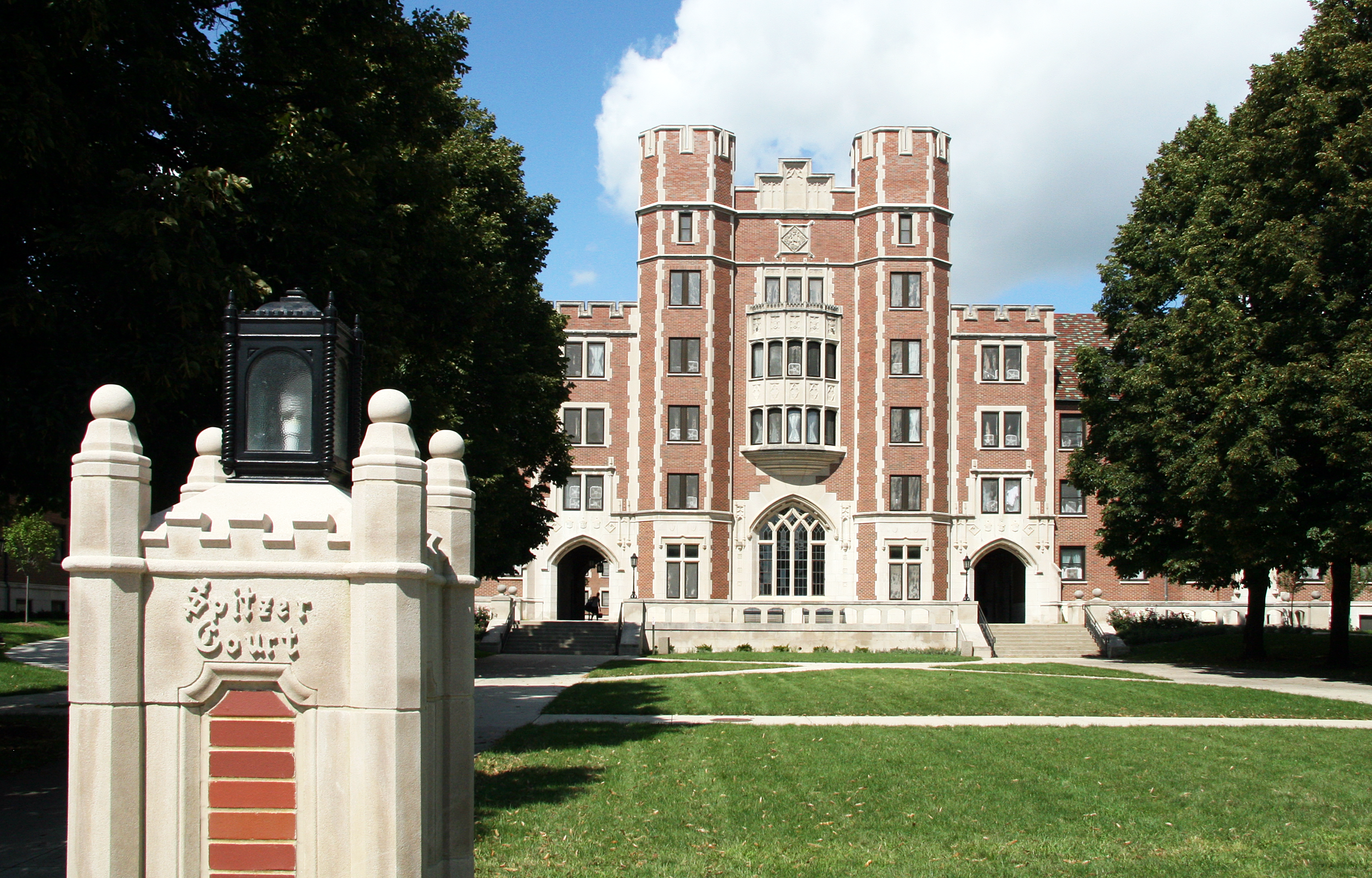 Cary Quad (formally Franklin Levering Cary Quadrangle), a student residence hall on the campus of Purdue University in West Lafayette, Indiana. Spitzer Court is the open courtyard within the quad. Photo looks north from Stadium Avenue.